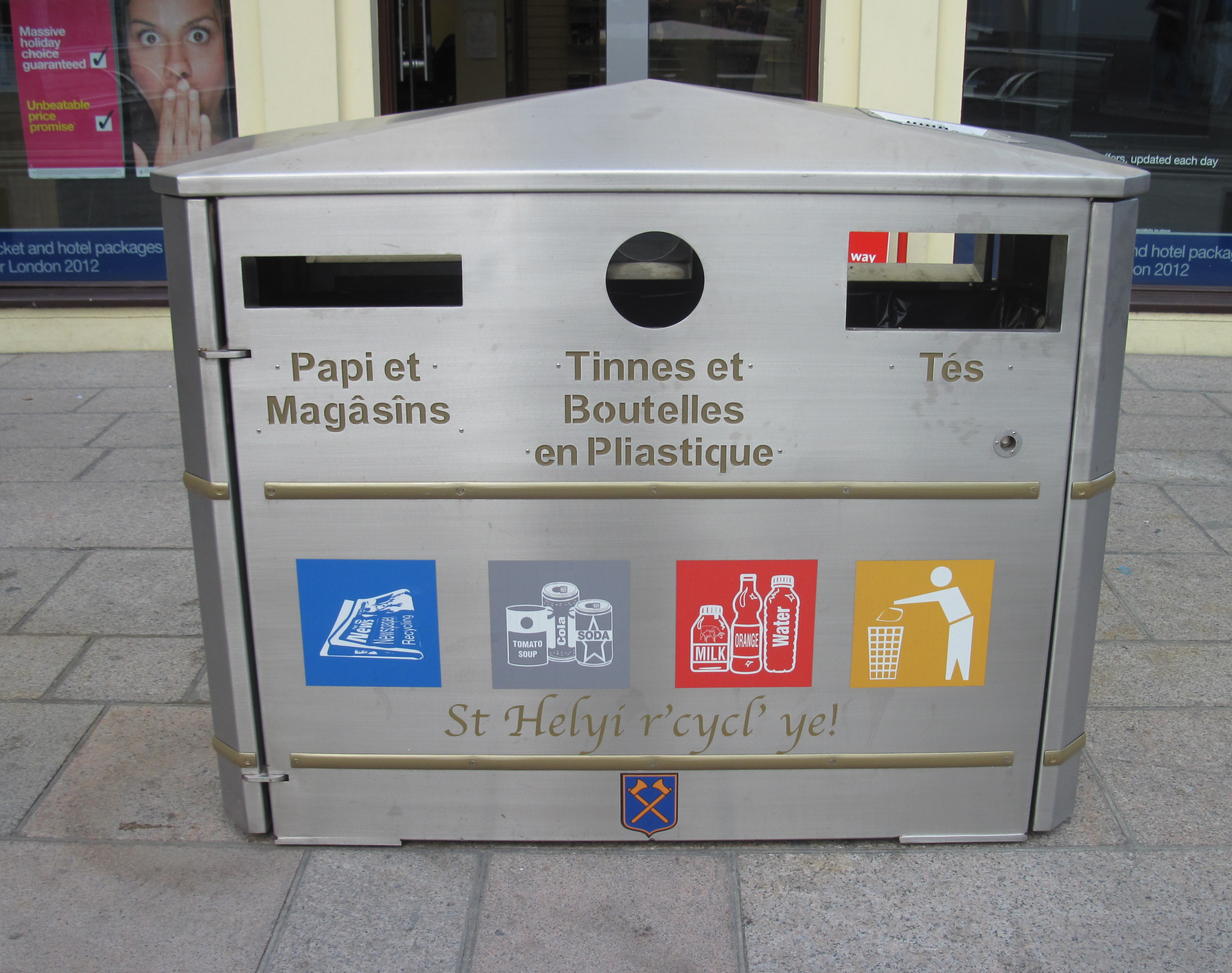 Saint Helier, Jersey 2011